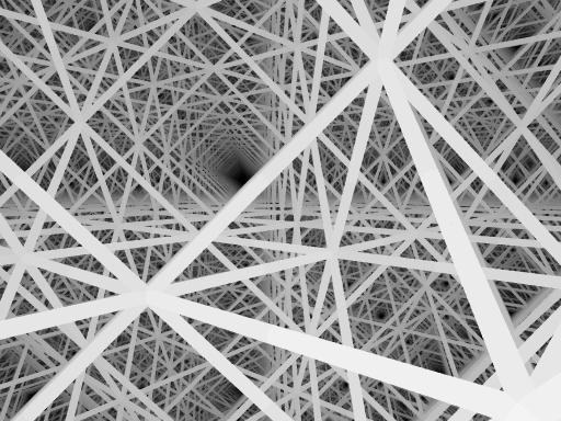 Made by me, Anton Sherwood, in POV-Ray. The scene consists of four mirrors and one cylinder.]